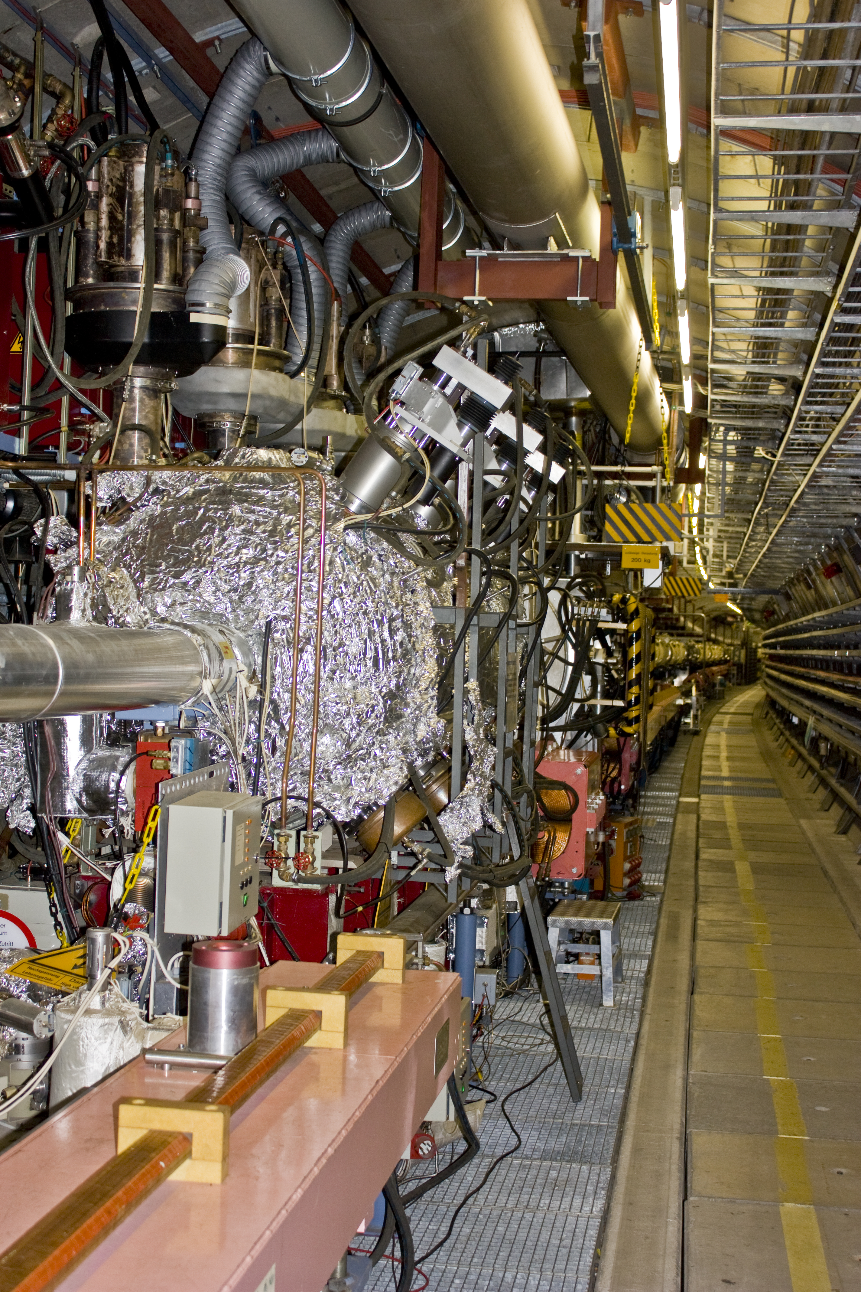 Particle accelerator HERA at DESY (Deutsches Elektronen-Synchrotron) Hamburg